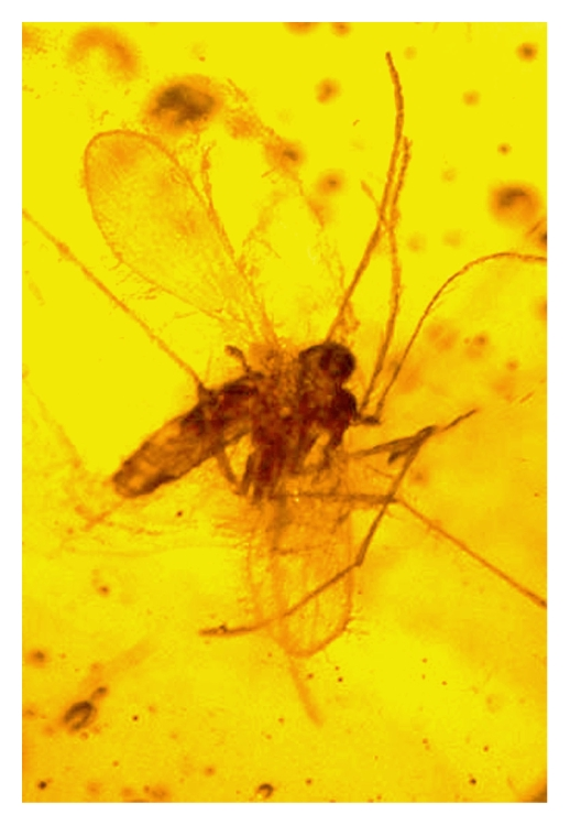 The Early Cretaceous Burmese amber sand fly, Palaeomyia burmitis, with stages of the trypanosomatid, Paleoleishmania proterus.